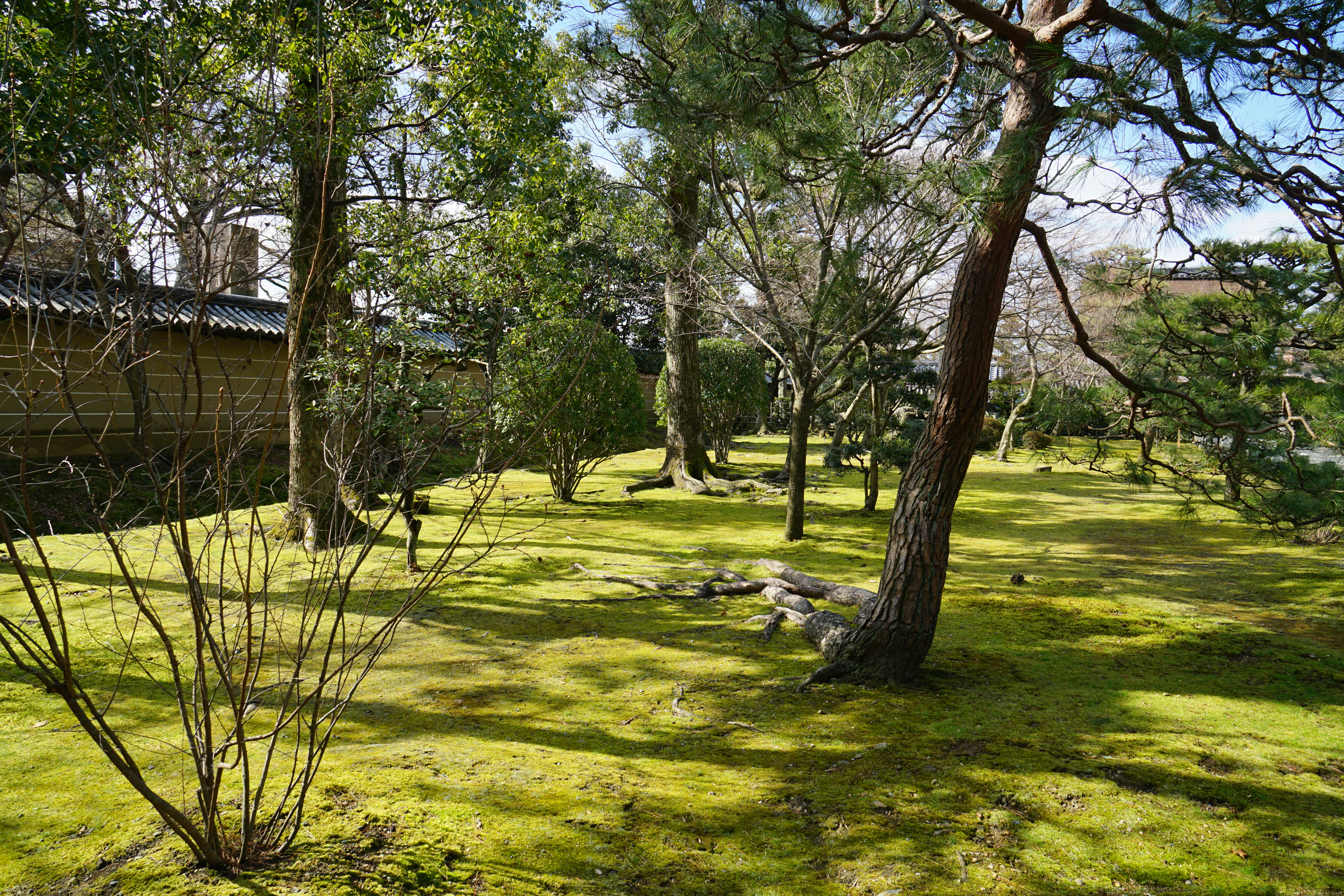 Myohoin in Kyoto, Kyoto prefecture, Japan